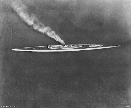 AWM caption : "An aerial view of Royal Navy K Class submarine K5. This was a steam driven vessel with two funnels. "